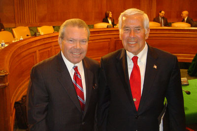 Senator Richard Lugar with Joe Van Bokkelen, U.S. Attorney for the Northern District of Indiana. Senator Lugar introduced Joe at the Senate Judiciary Committee's nomination hearing for Joe Van Bokkelen to be United States District Court Judge for the Northern District of Indiana.